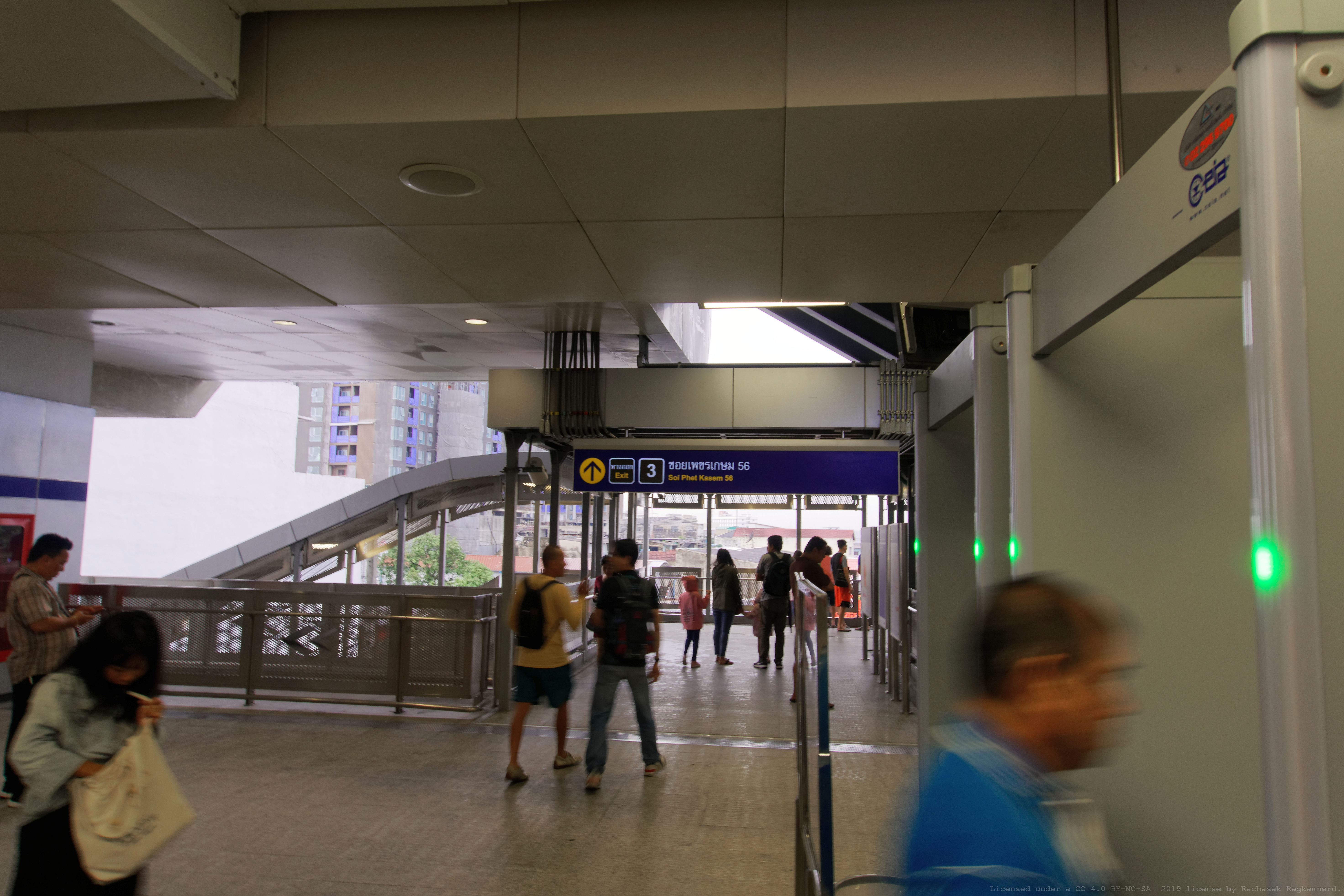 MRT Phasi Charoen station: Exit #3 to Phetkasem 53 alley (Soi)